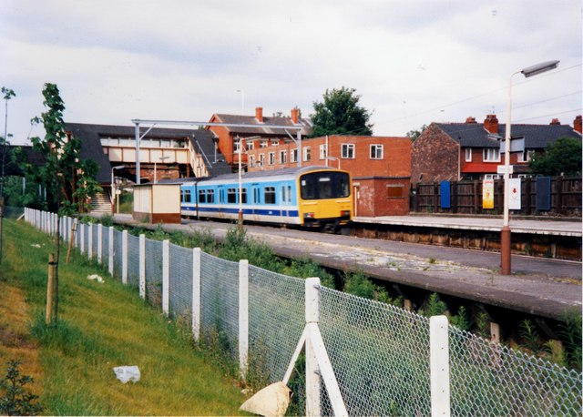 Dane Road Metrolink station Original description: Dane Road station